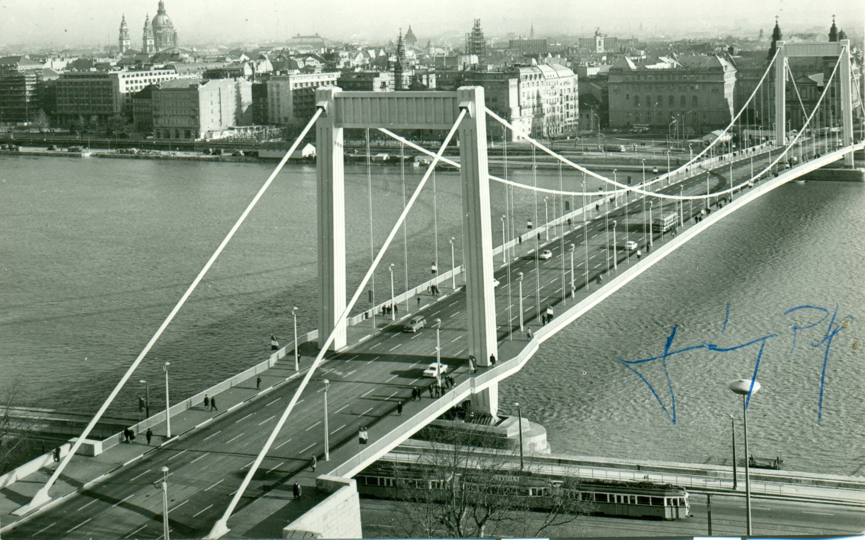 Elizabeth Bridge in Budapest